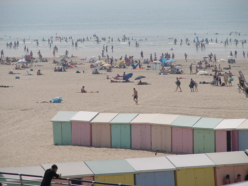 Station balneaire Berck